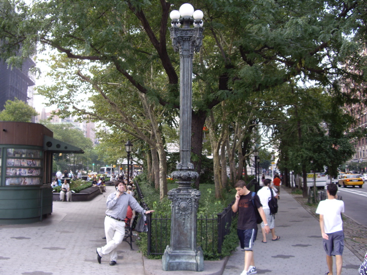 Verdi Square. Lamp formerly stood by the Firemens Memorial.